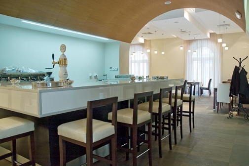 my project